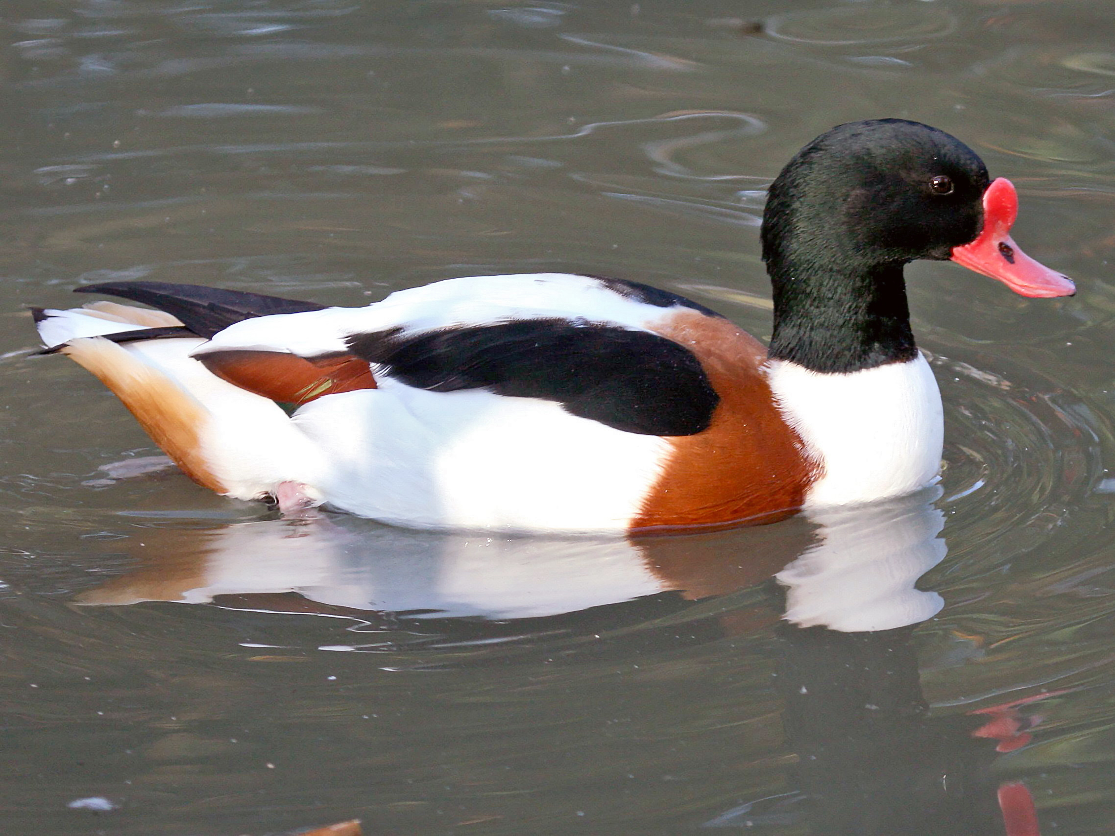 Common Shelduck (Tadorna tadorna) at Sylvan Heights Waterfowl Park, Halifax County, North Carolina